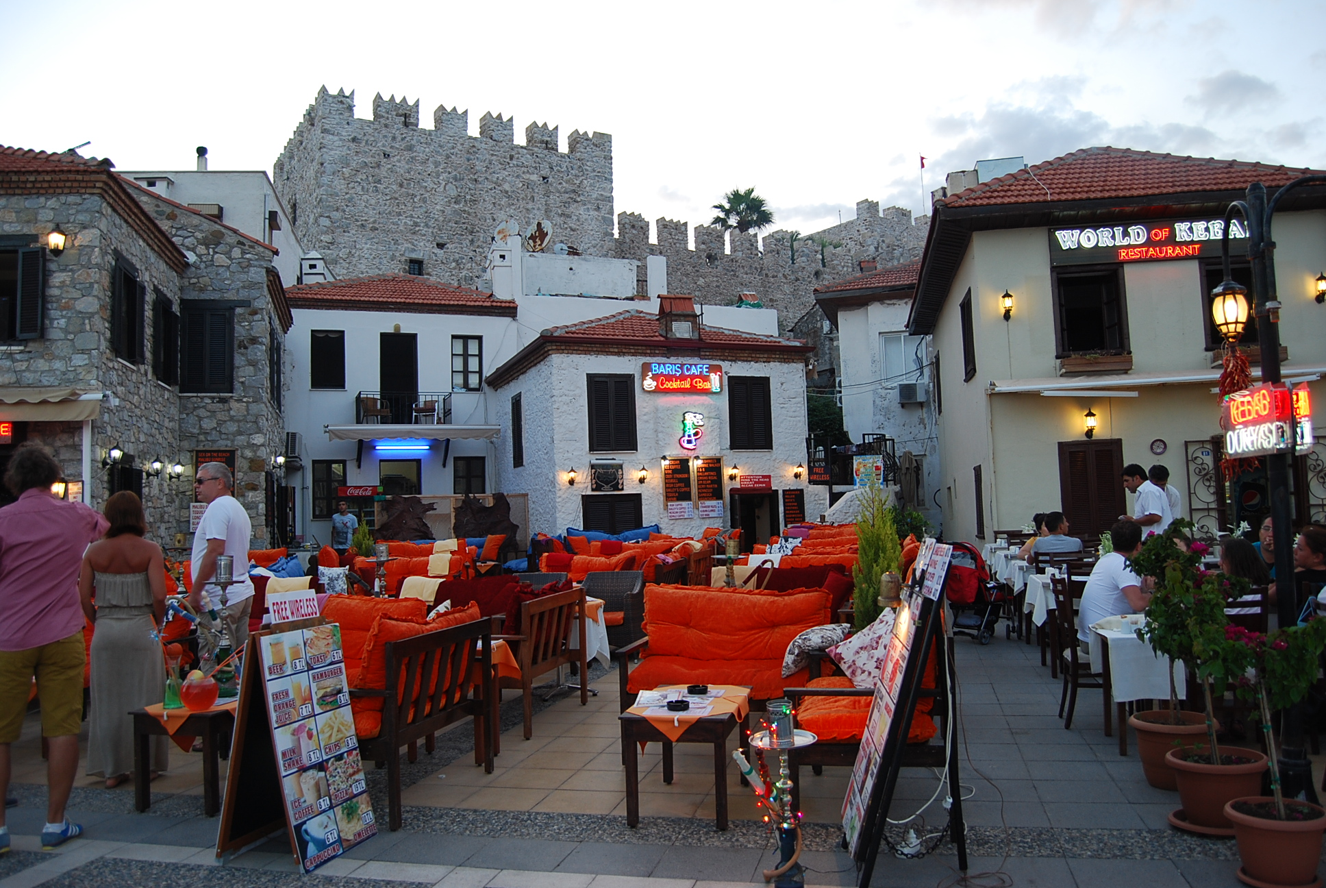 Marmaris Bar Street